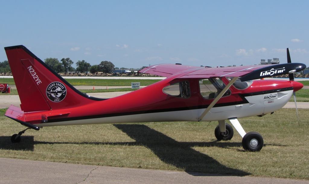 Glassair Sportsman 2+2